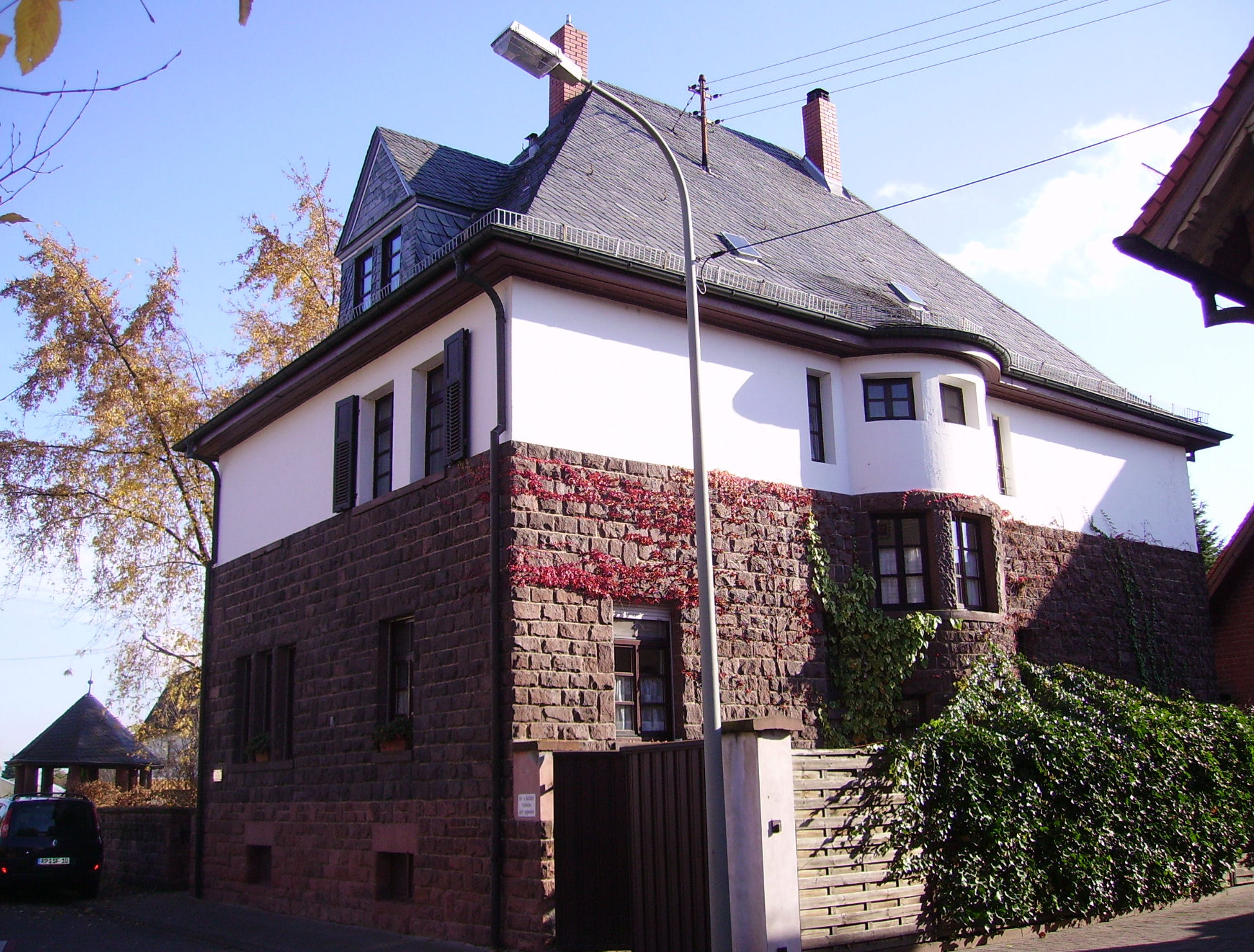 Maxdorf in Rhineland-Palatinate, Germany